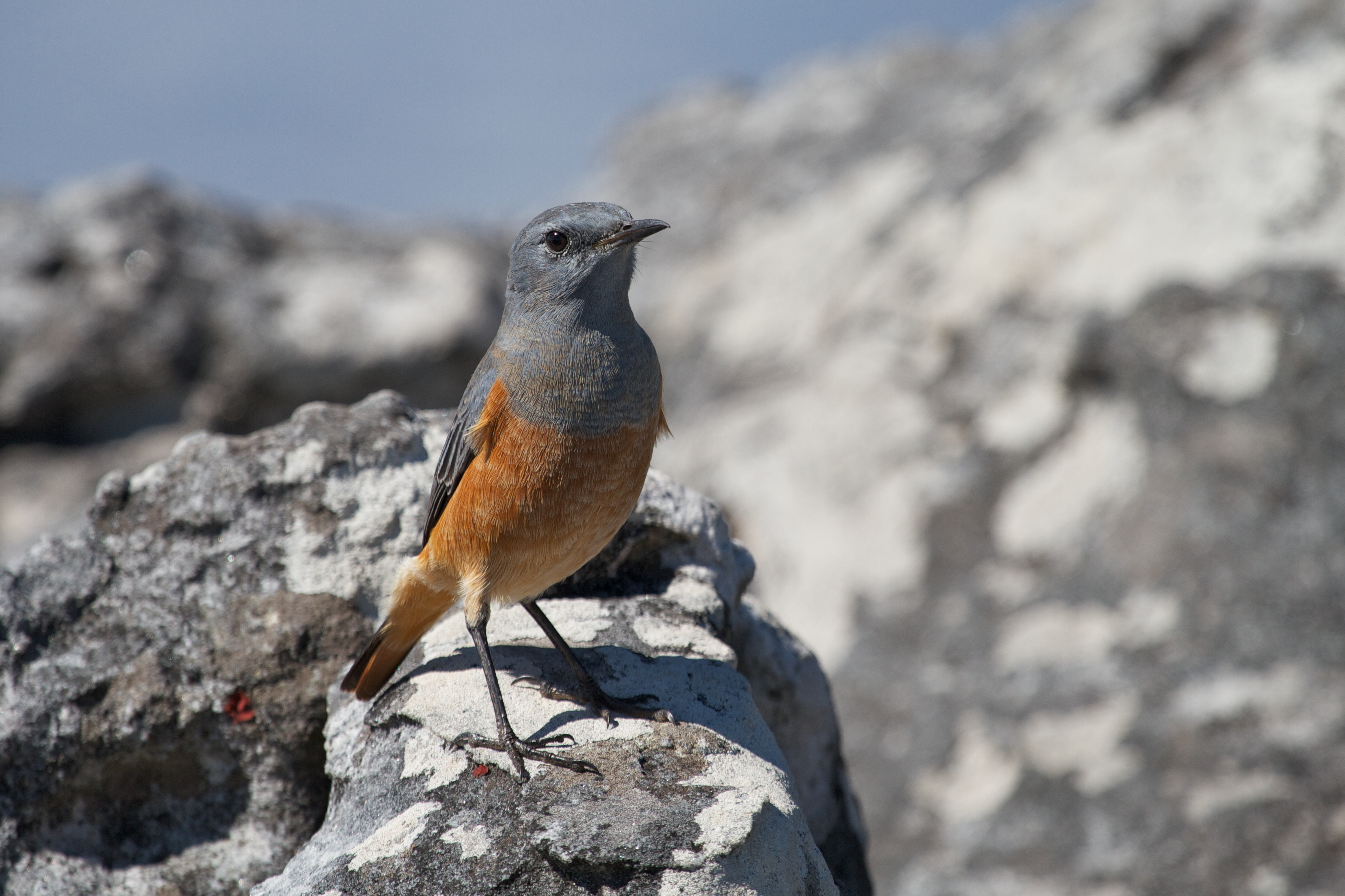 A male Sentinel Rock Thrush in Cape Town, Western Cape, South Africa.